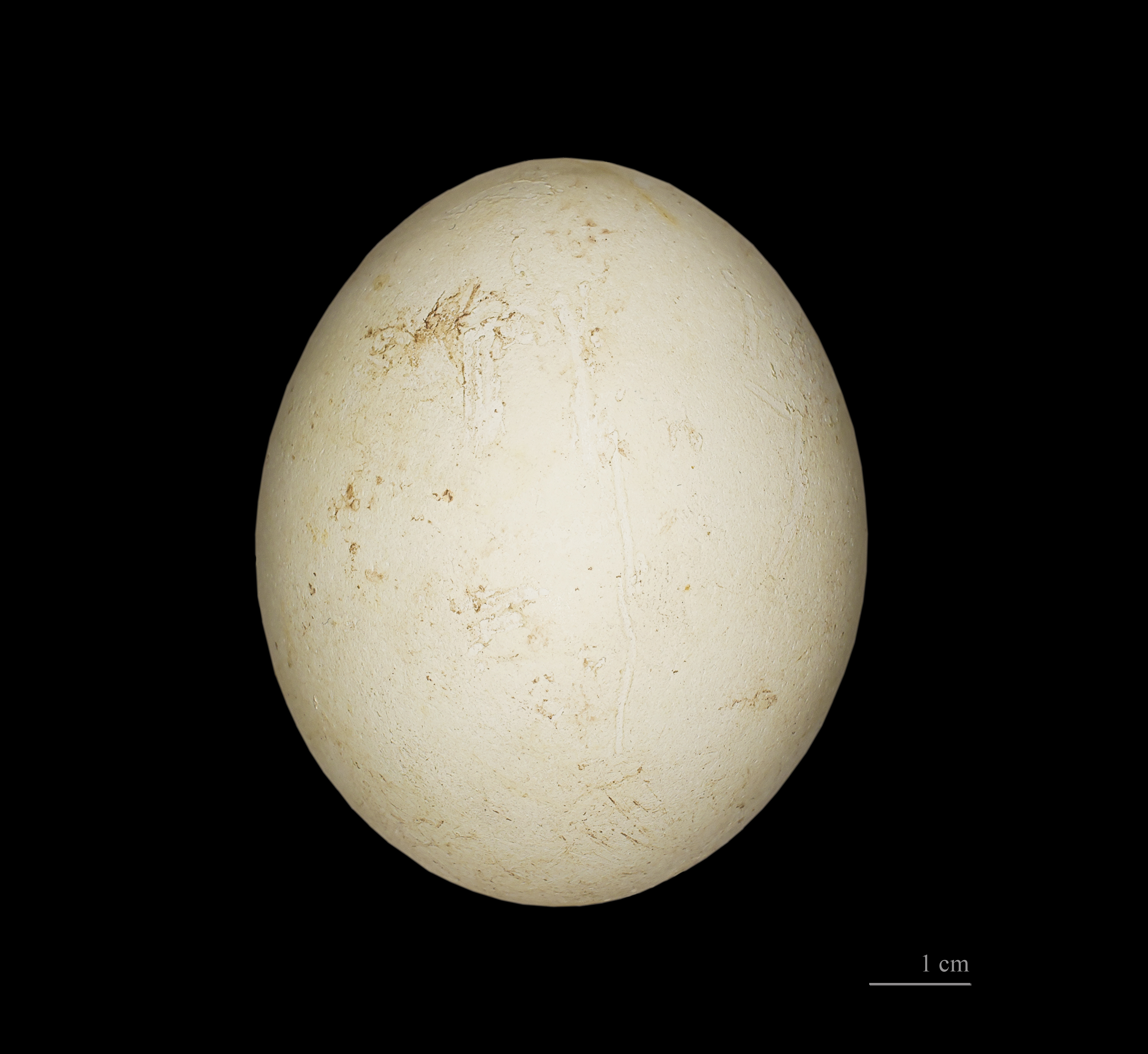 Egg of Adélie Penguin - Collection of Jacques Perrin de Brichambaut Locality: Adélie Land.